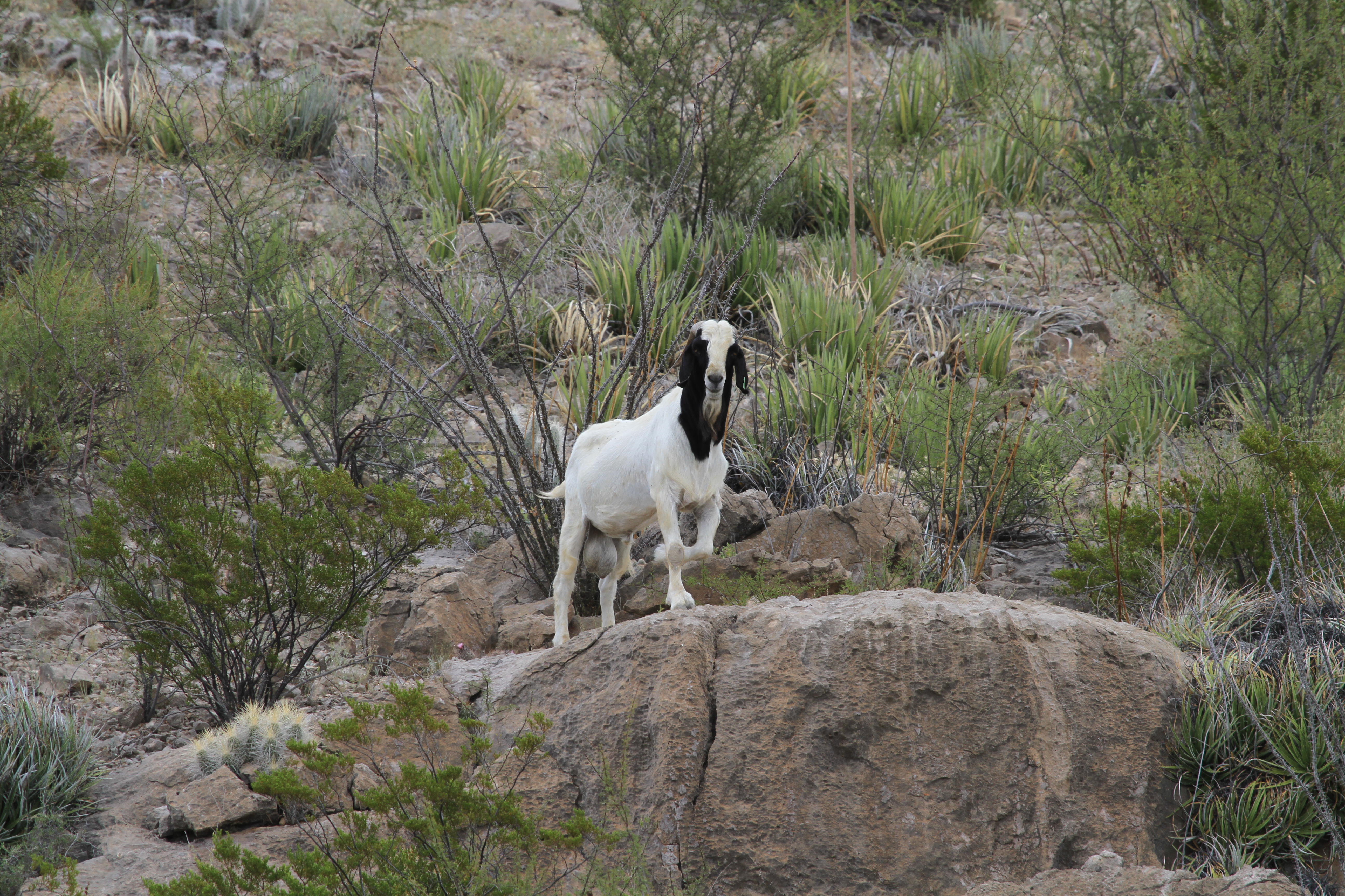 Chivo